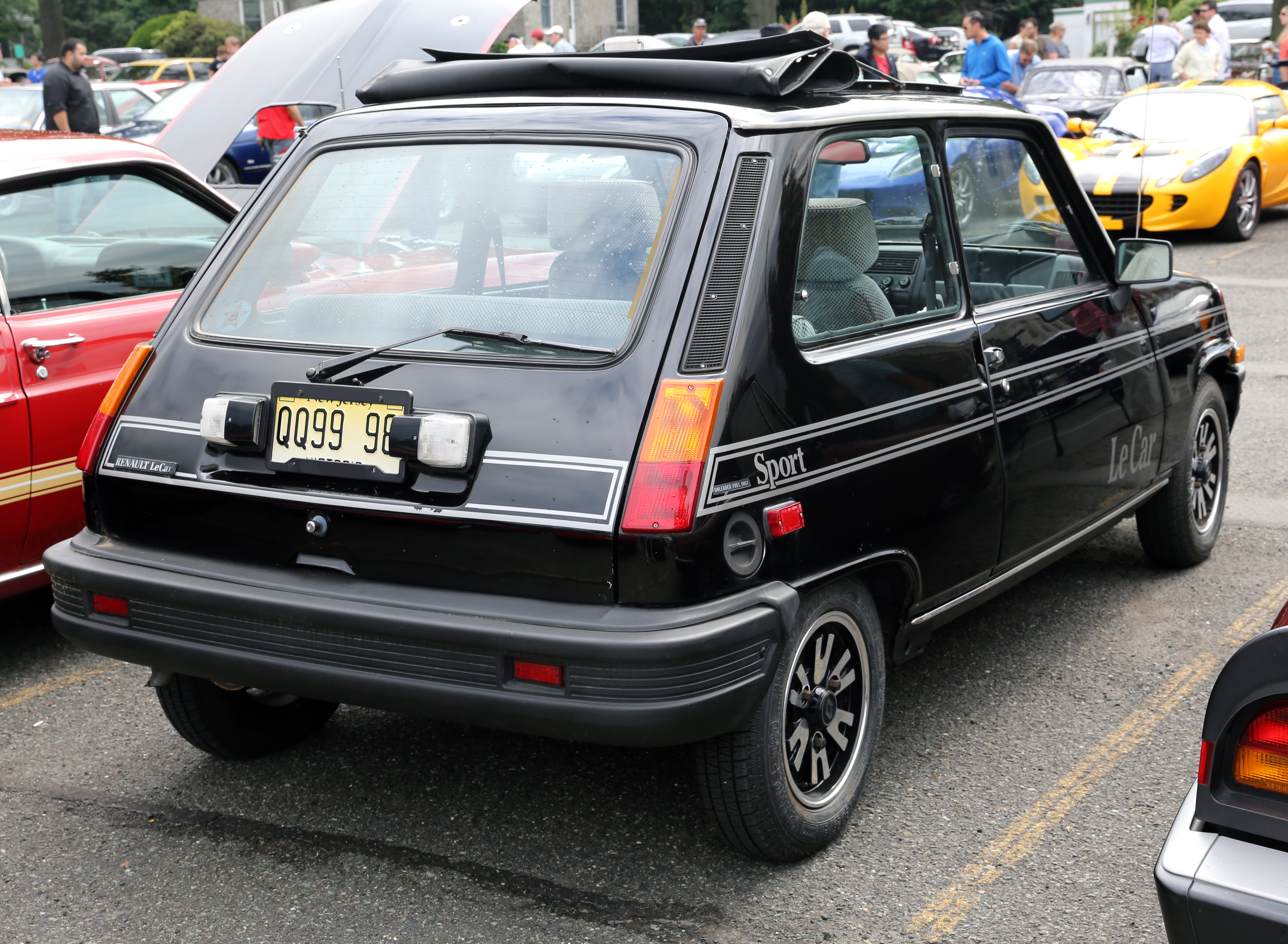 Rear of 1983 Renault Le Car Sport, with the optional sunroof and nearly all other available extras. I think the "Sport" package was a dealer-installed one, consisting mostly of stickers.